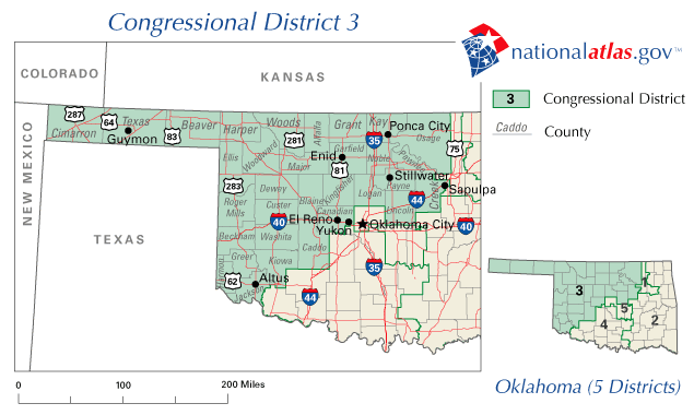 Oklahoma District 3. Image adapted from US fed gov't source